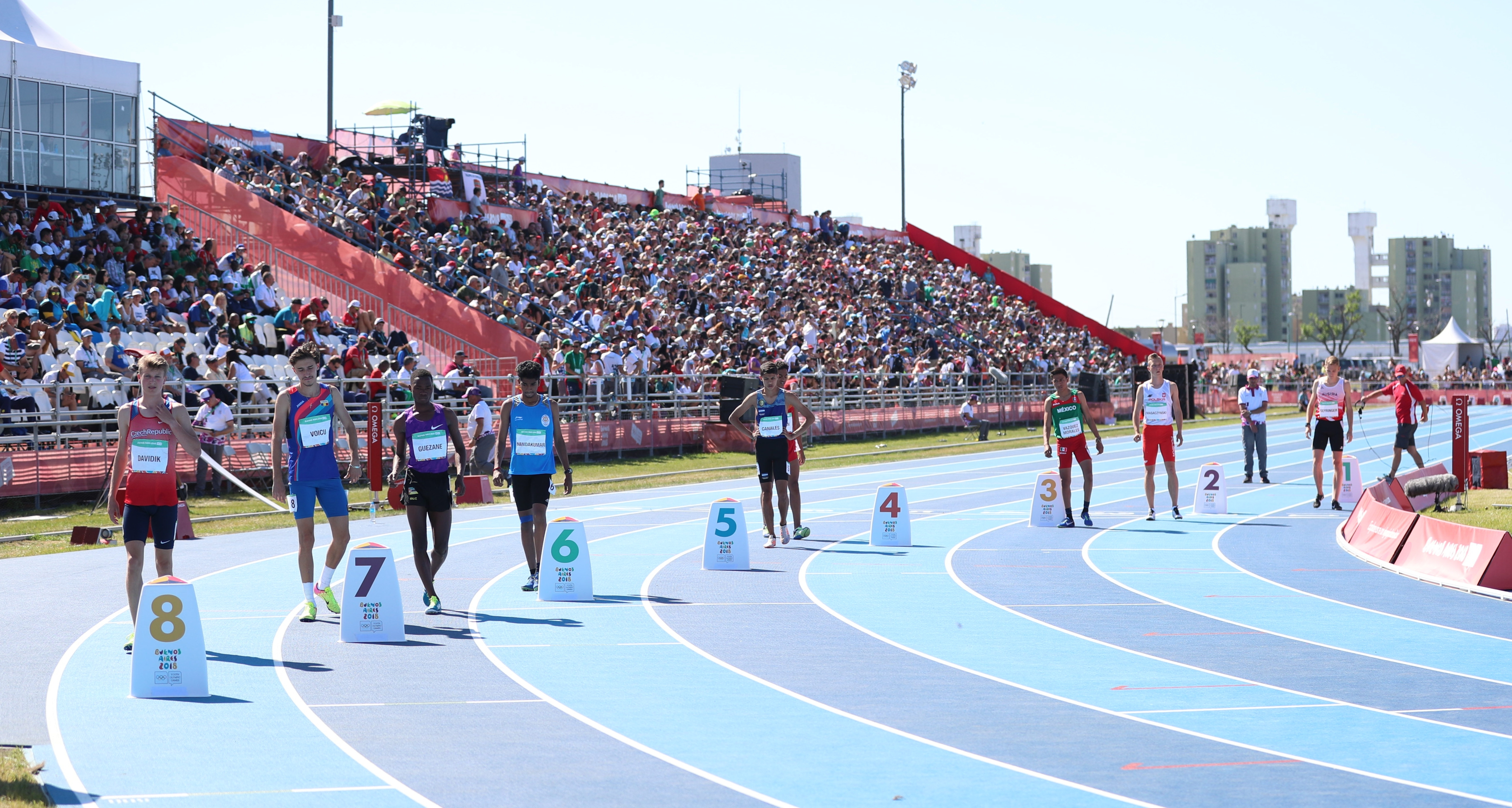 Athletics, Boys' 800 m Stage 2, at the 2018 Summer Youth Olympics in Buenos Aires on 15 October 2018.